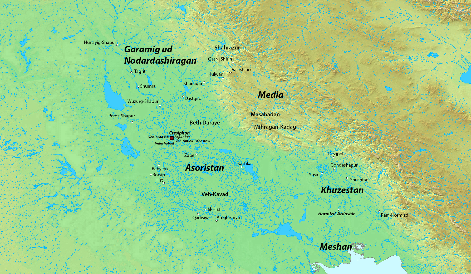 Map of the southwestern part of the late Sasanian Empire (not fully done yet). Map taken from DEMIS Mapserver, which is public domain, the rest is self-made.